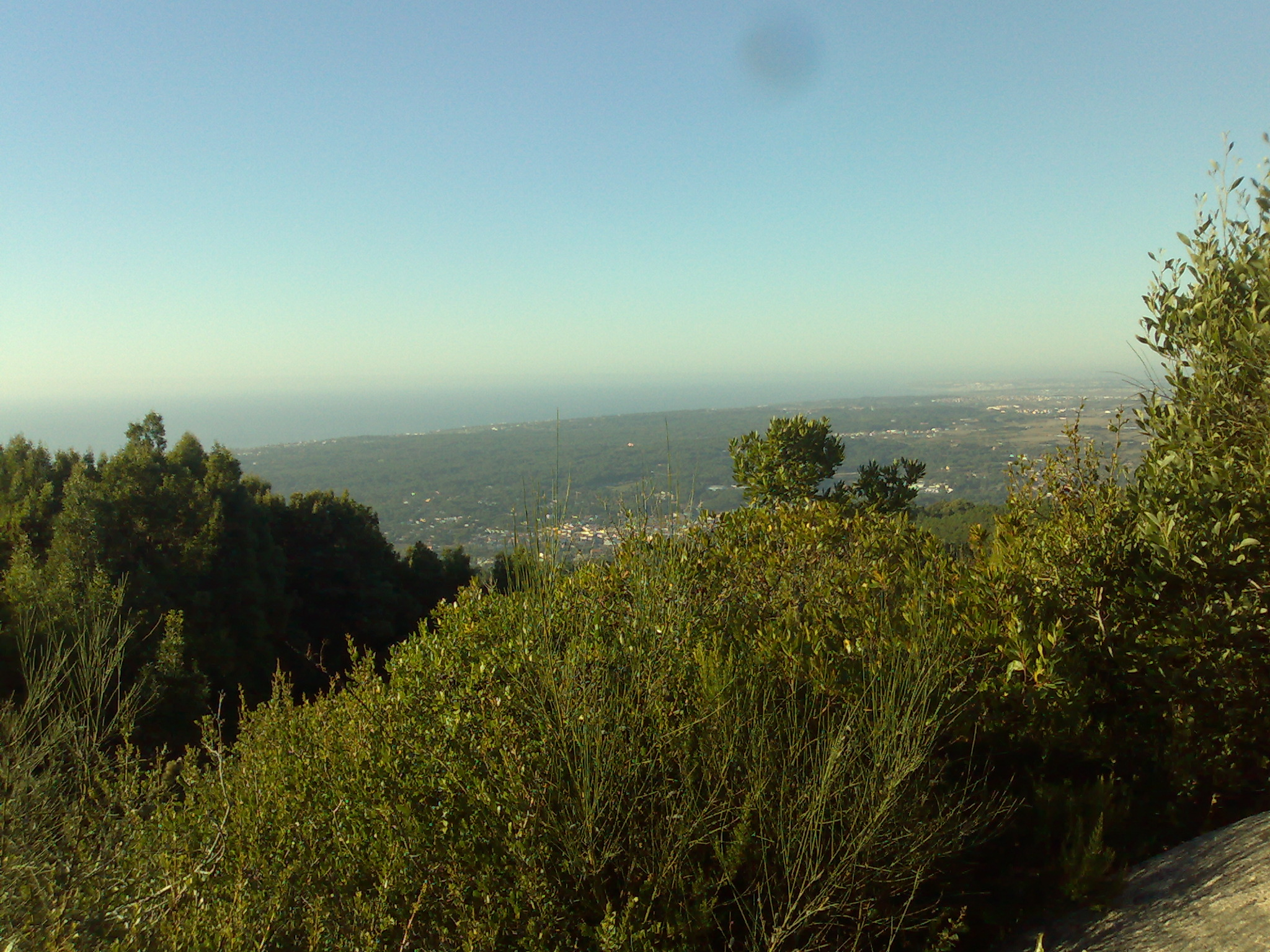 Convento dos capuchos (Sintra) - Panoramic view near the convent